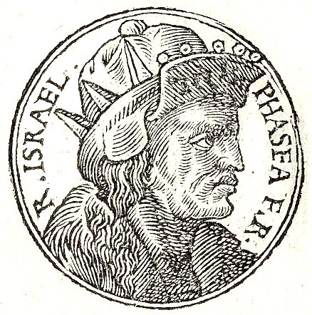 Pekahiah was a king of Israel and the son of Menahem, whom he succeeded, and the second and last king of Israel from the House of Gadi. He ruled from the capital of Samaria.